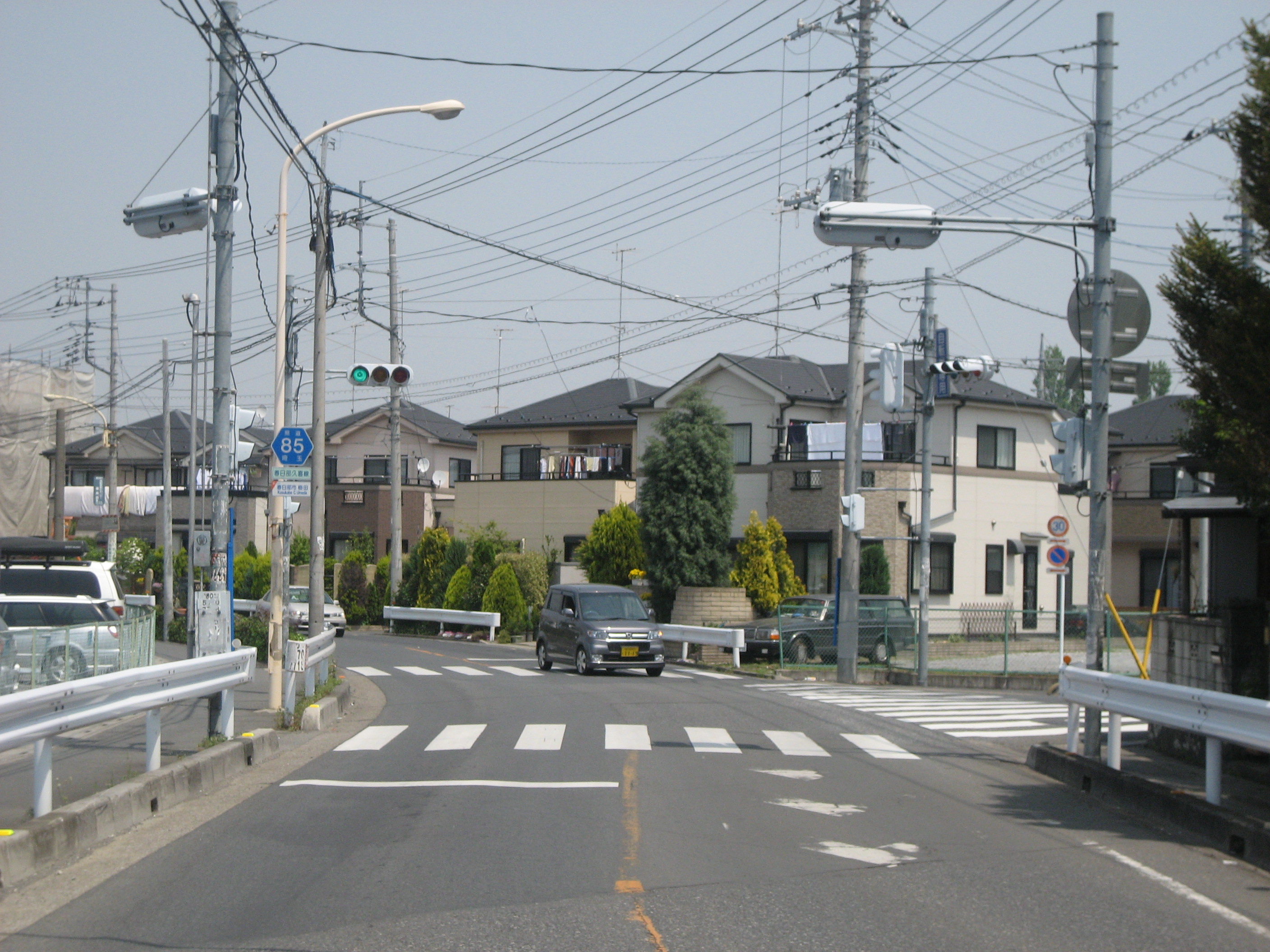 The Saitama Prefectural Road Route 85 in Kasukabe City